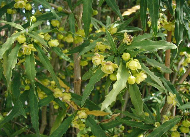 Berberis gagnepainii: Flowers and foliage